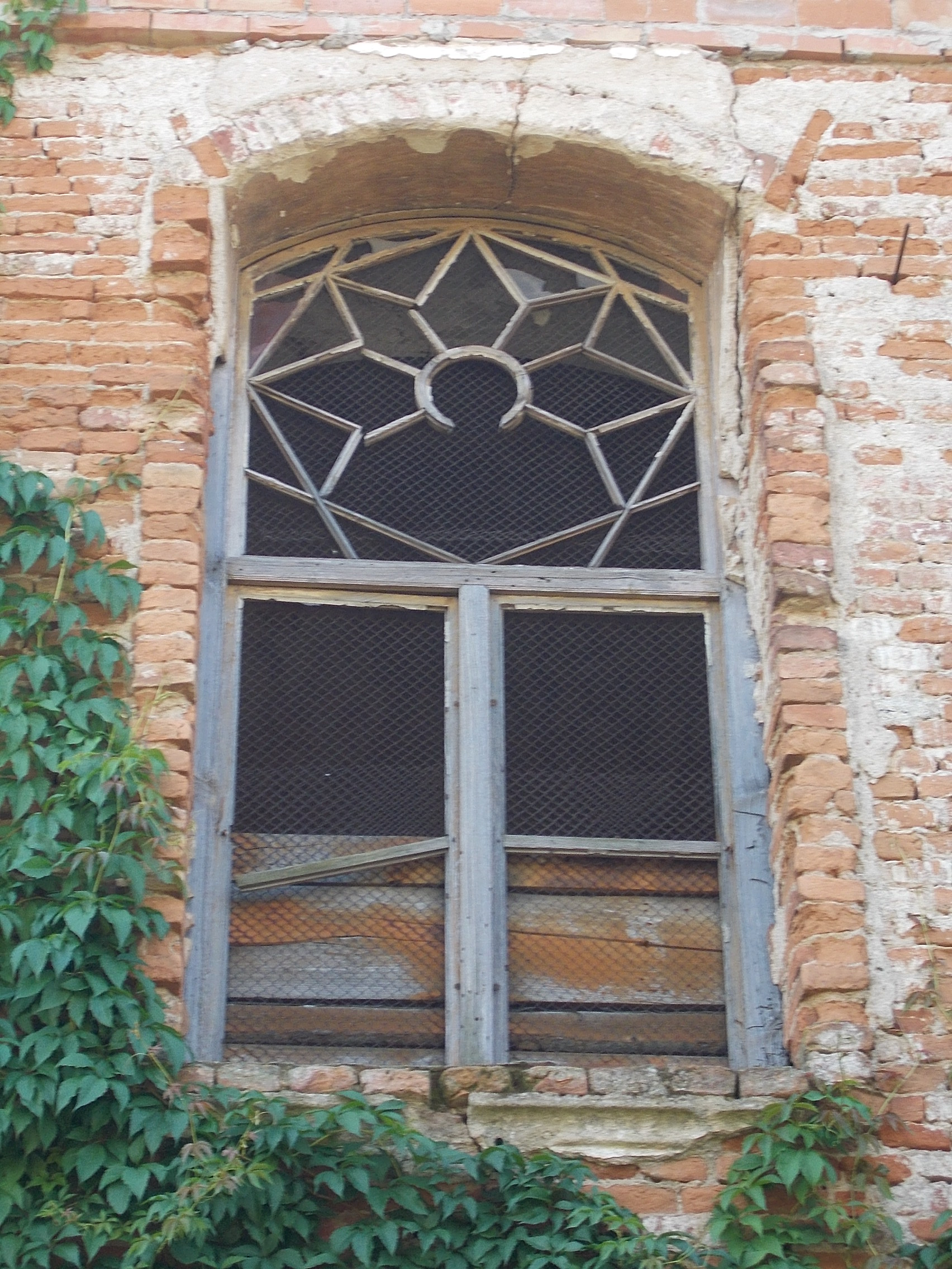 Neolog Old Synagogue. - Bonyhád, Tolna County, Hungary.